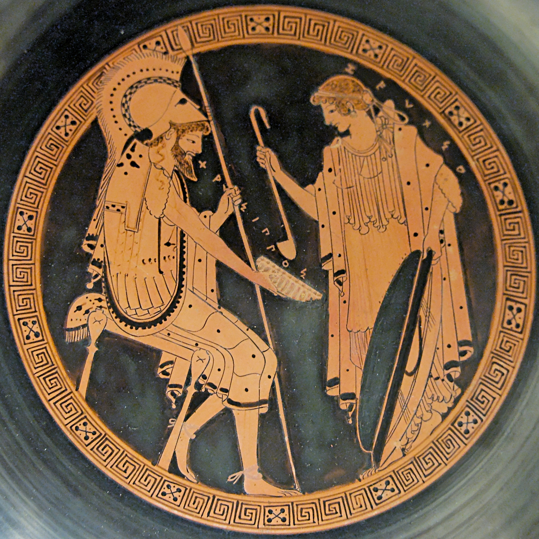 Zeuxo pours wine to Chrysippos. Interior from an Attic red-figured kylix, ca. 490-480 BC. From the so-called Brygos Tomb in Capua.